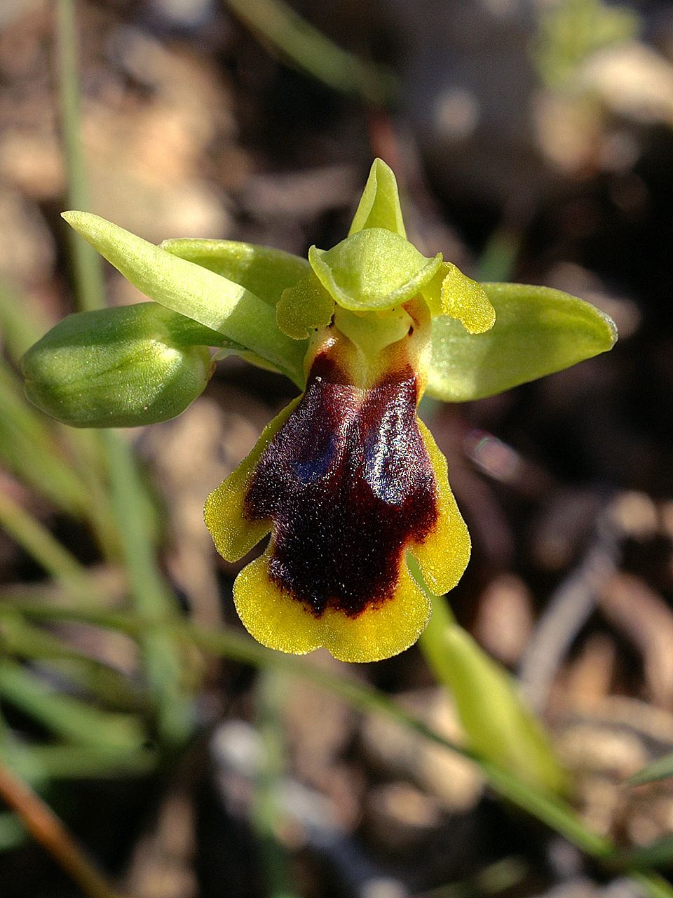 Ophrys blitopertha - flower